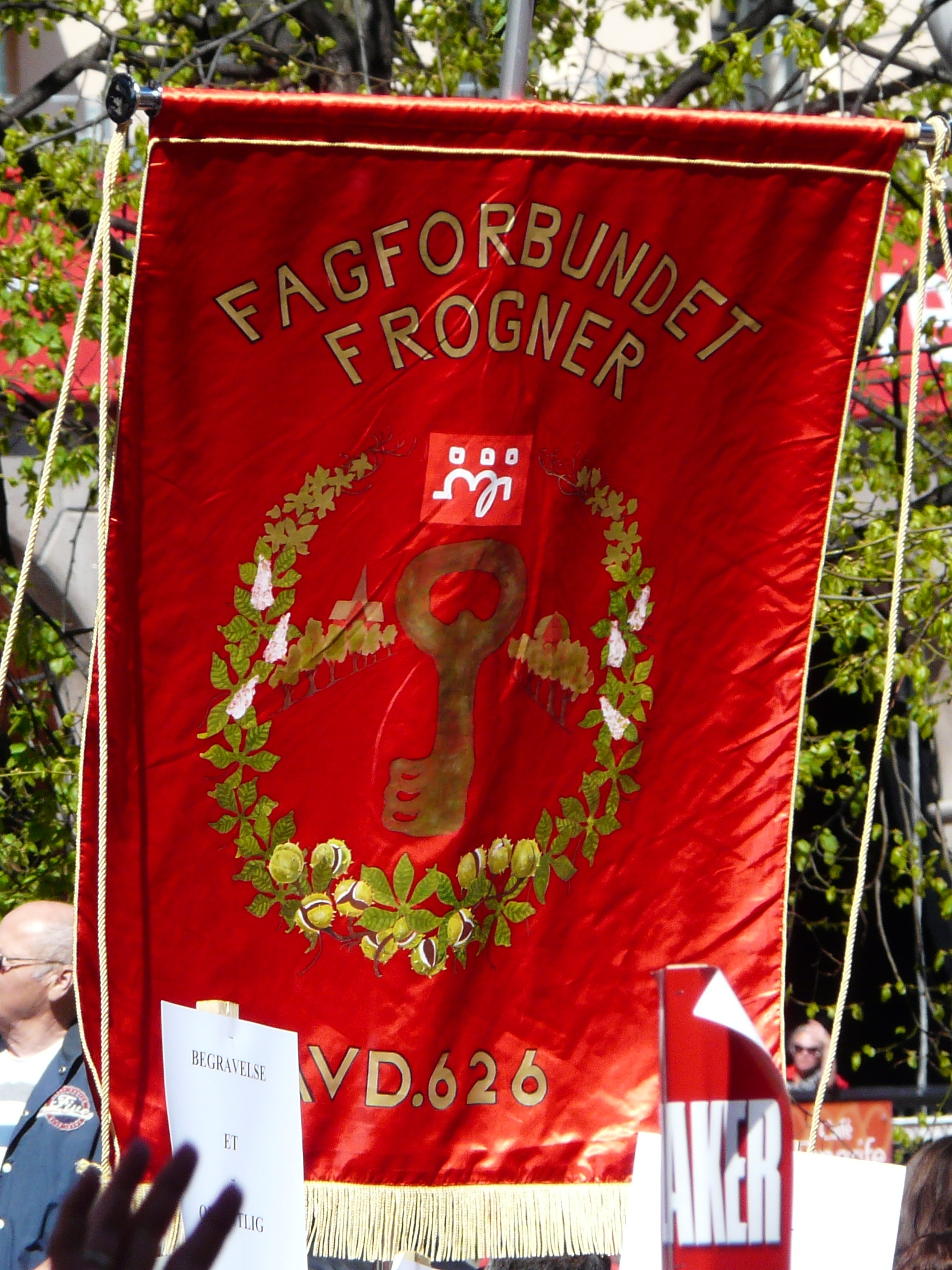 Union banner in the International Worker's Day parade in Oslo, 2012.